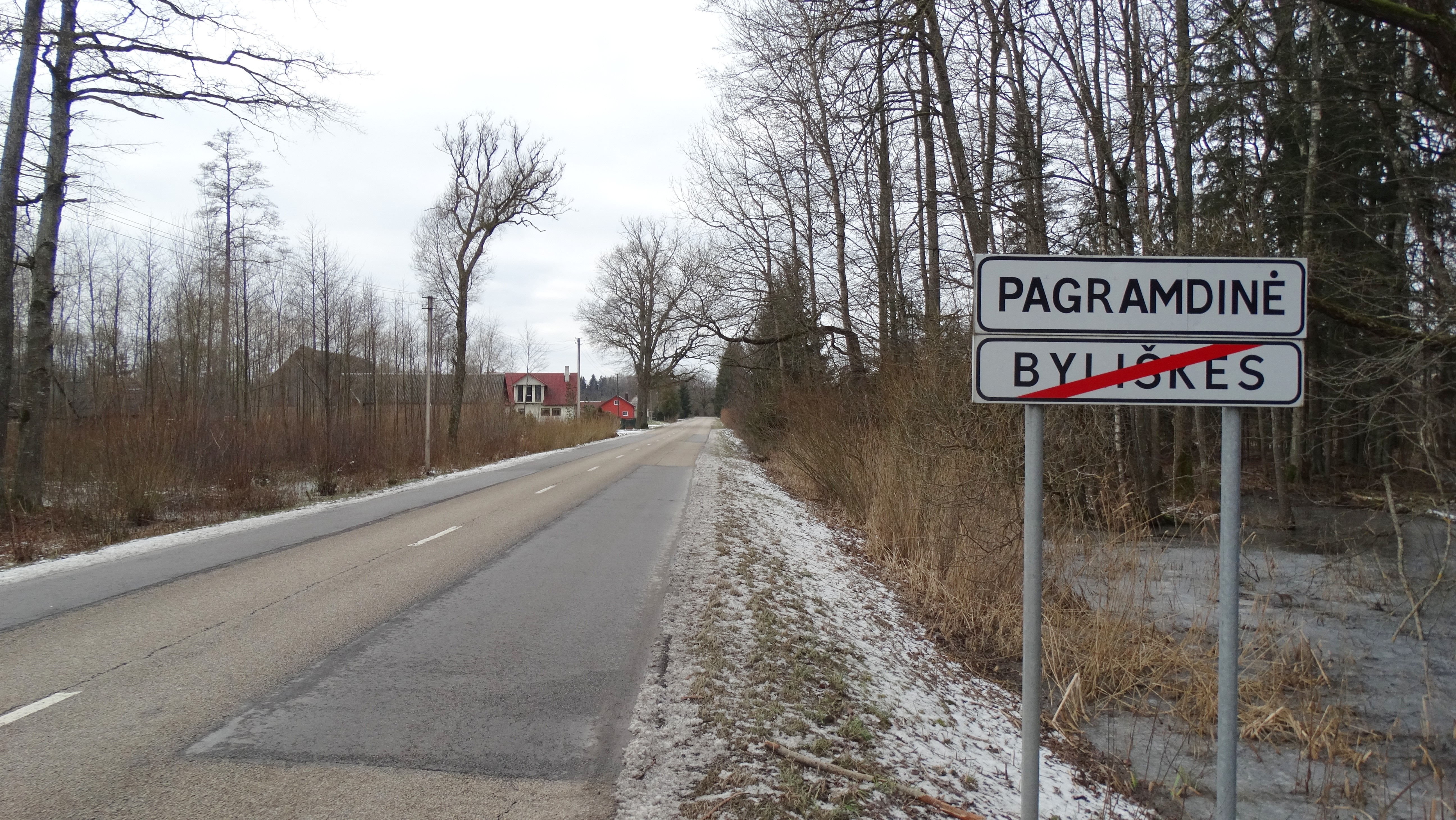 Pagramdinė, Prienai district, Lithuania